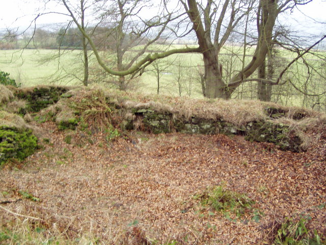 View over Coldoch Broch looking South